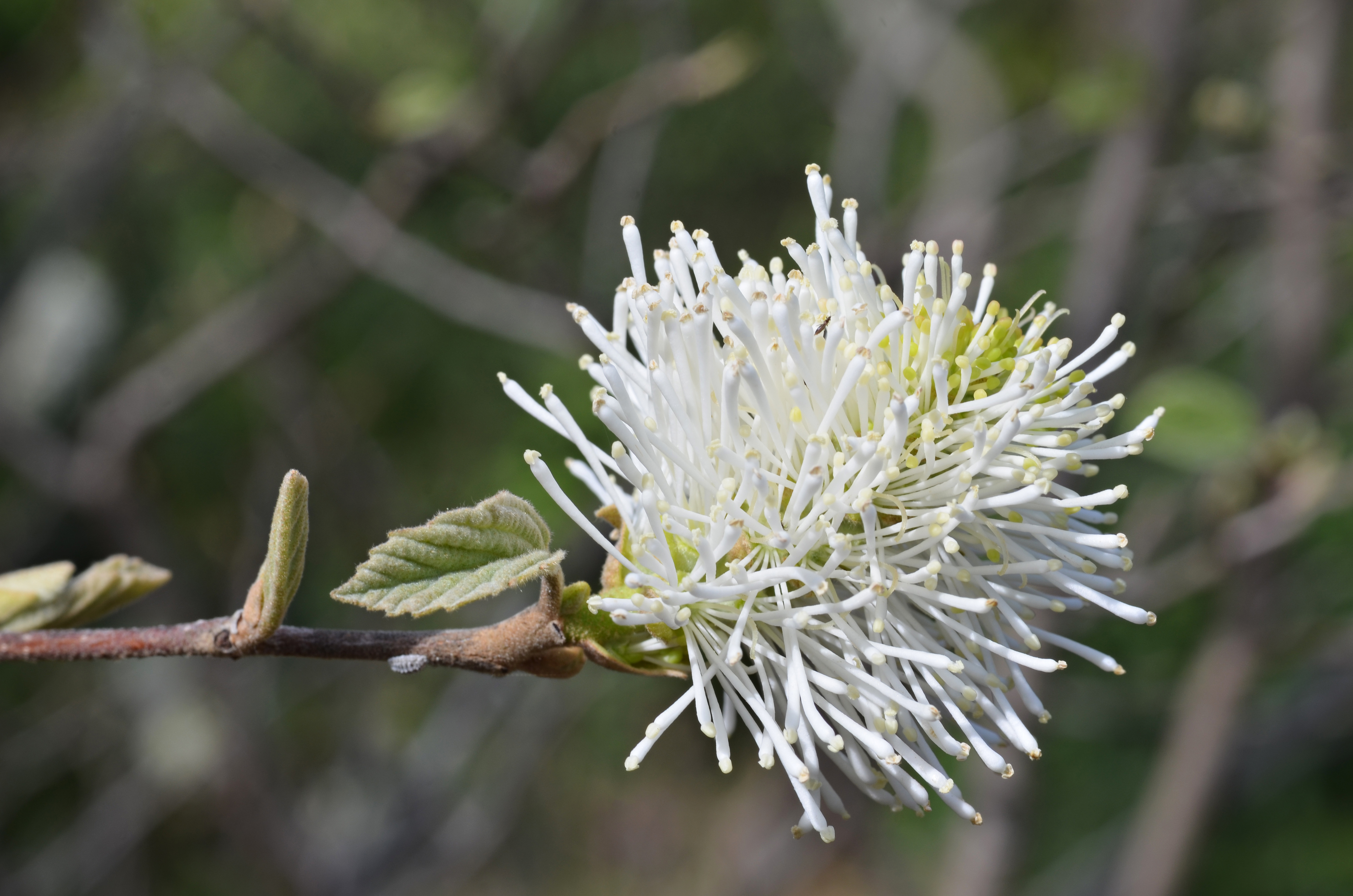 Photograph of a flower on a Dwarf Fothergilla (Fothergilla gardenii). Photo taken at the Tyler Arboretum where it was identified by tag.